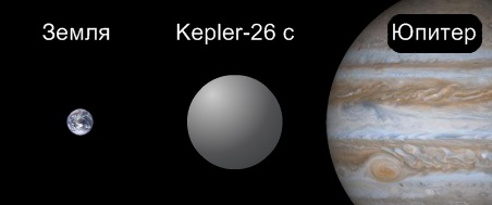 Comparative sizes of Earth, Kepler-26 c and Jupiter.